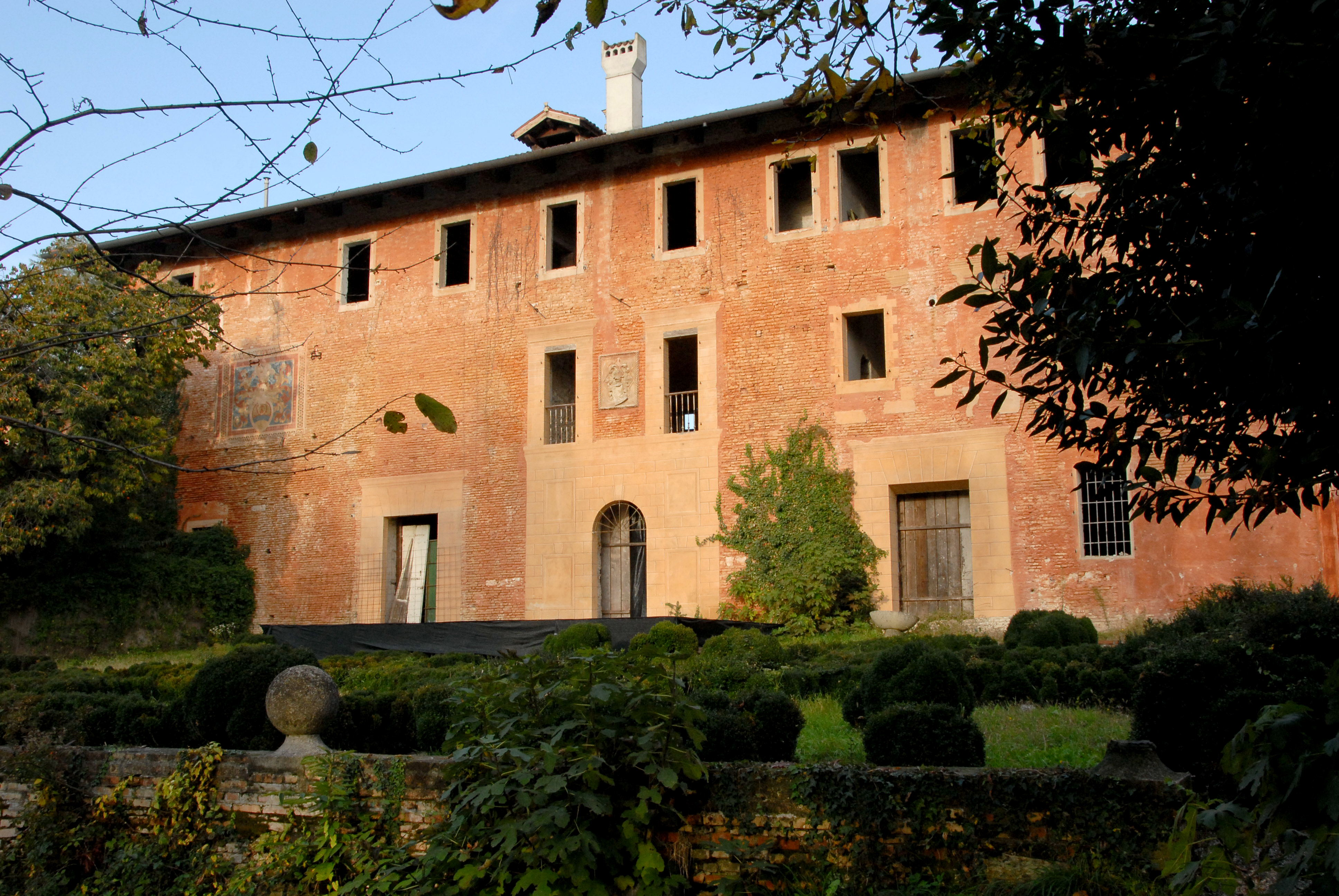 Villa Savorgnan - Ottelio at Ariis in the community Rivignano, province of Udine, region , Italy